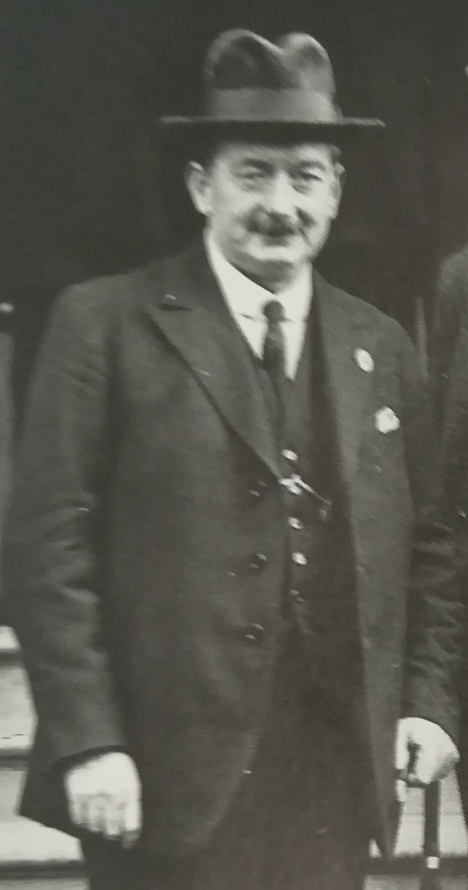 Joe Cotter, English trade union leader, at the 1922 Trades Union Congress